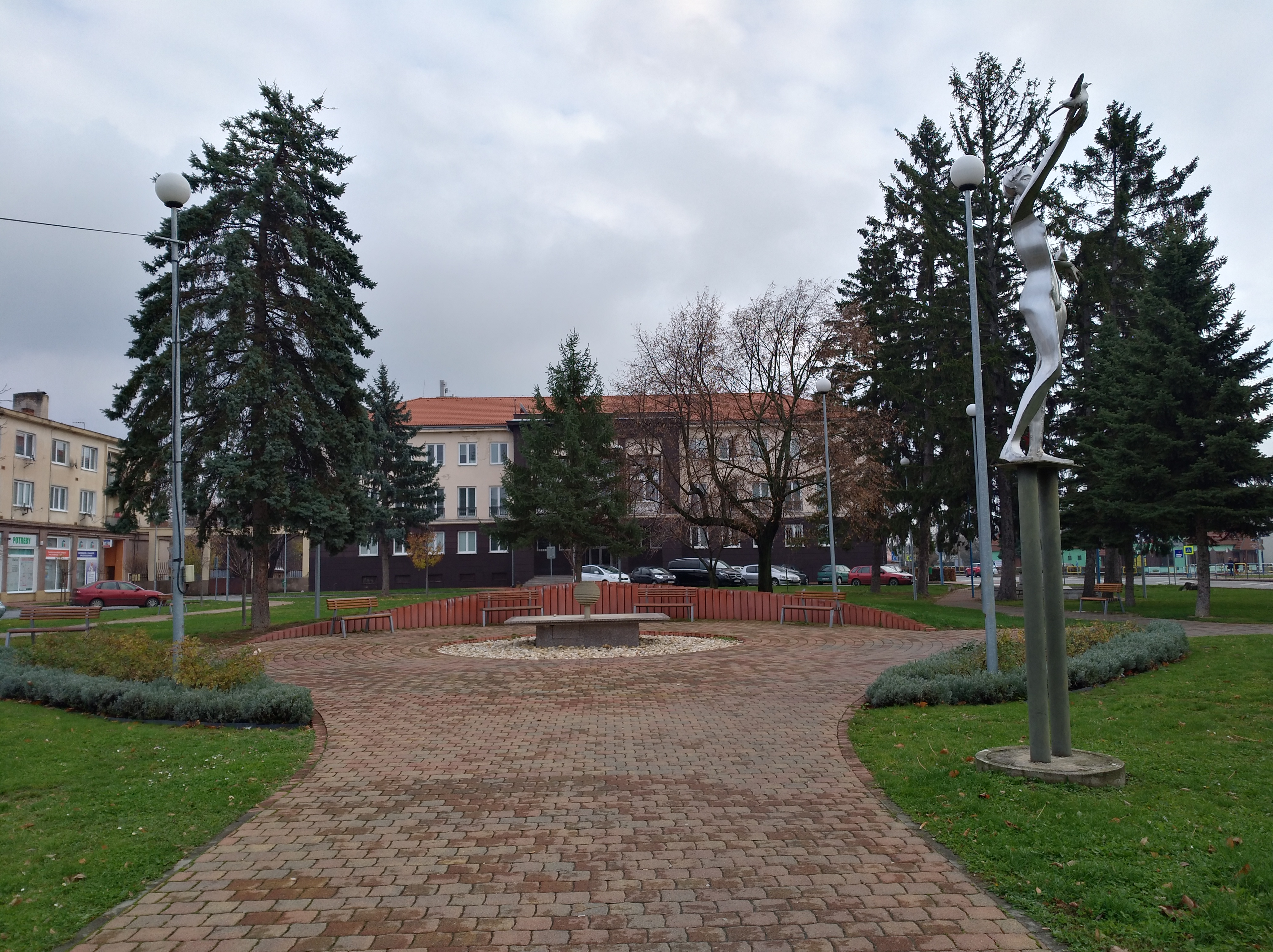 Park at Námestie Svobody